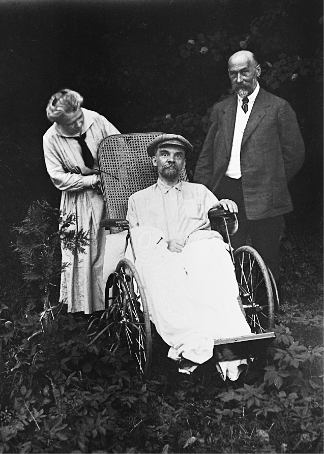 One of the last photographs of Lenin. Taken in Gorki after May 15th 1923. Beside him are his sister Anna Ilyinichna Yelizarova-Ulyanova and one of his doctors A. M. Kozhevnikov.